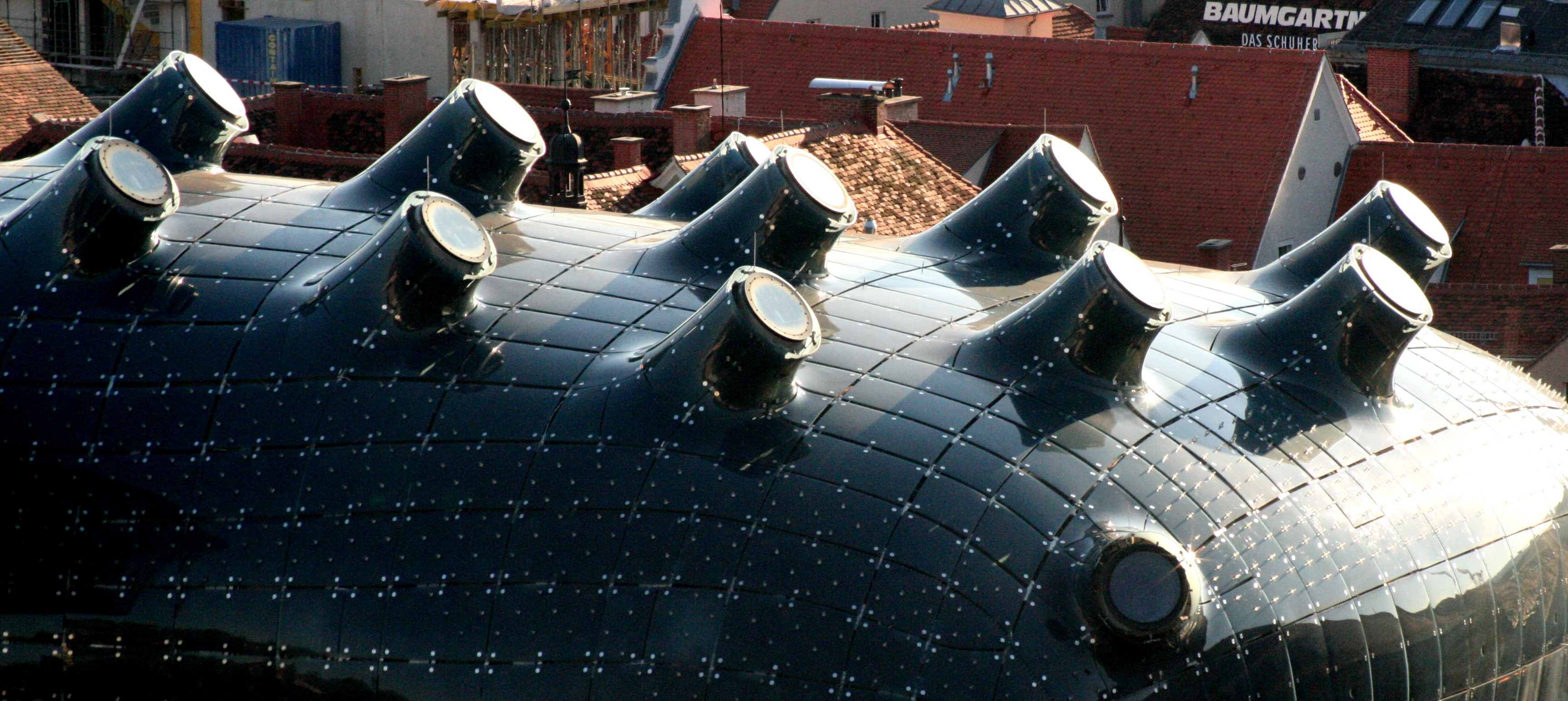 Kunsthaus Graz in Graz, Austria, Europe; seen from "Schloßberg" mountain